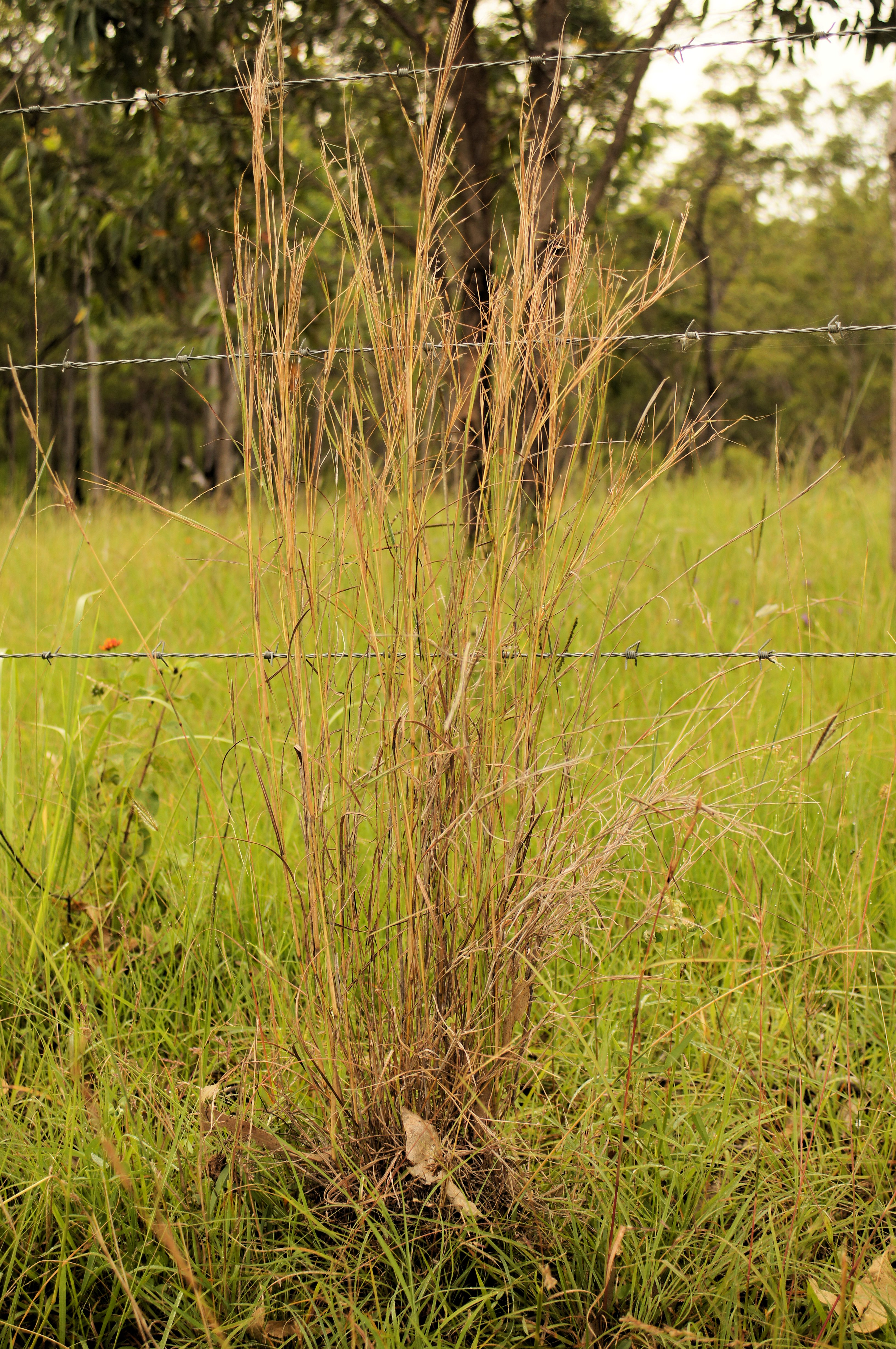 Loosely tufted grass 1-1.5 m tall; branching occurs at the lower nodes. Found in native pastures and woodlands on shallow, low fertility soils. More common on hill slopes (occasionally on sandy river flats) in the western portion of the coast. Very drought hardy, but frost sensitive.